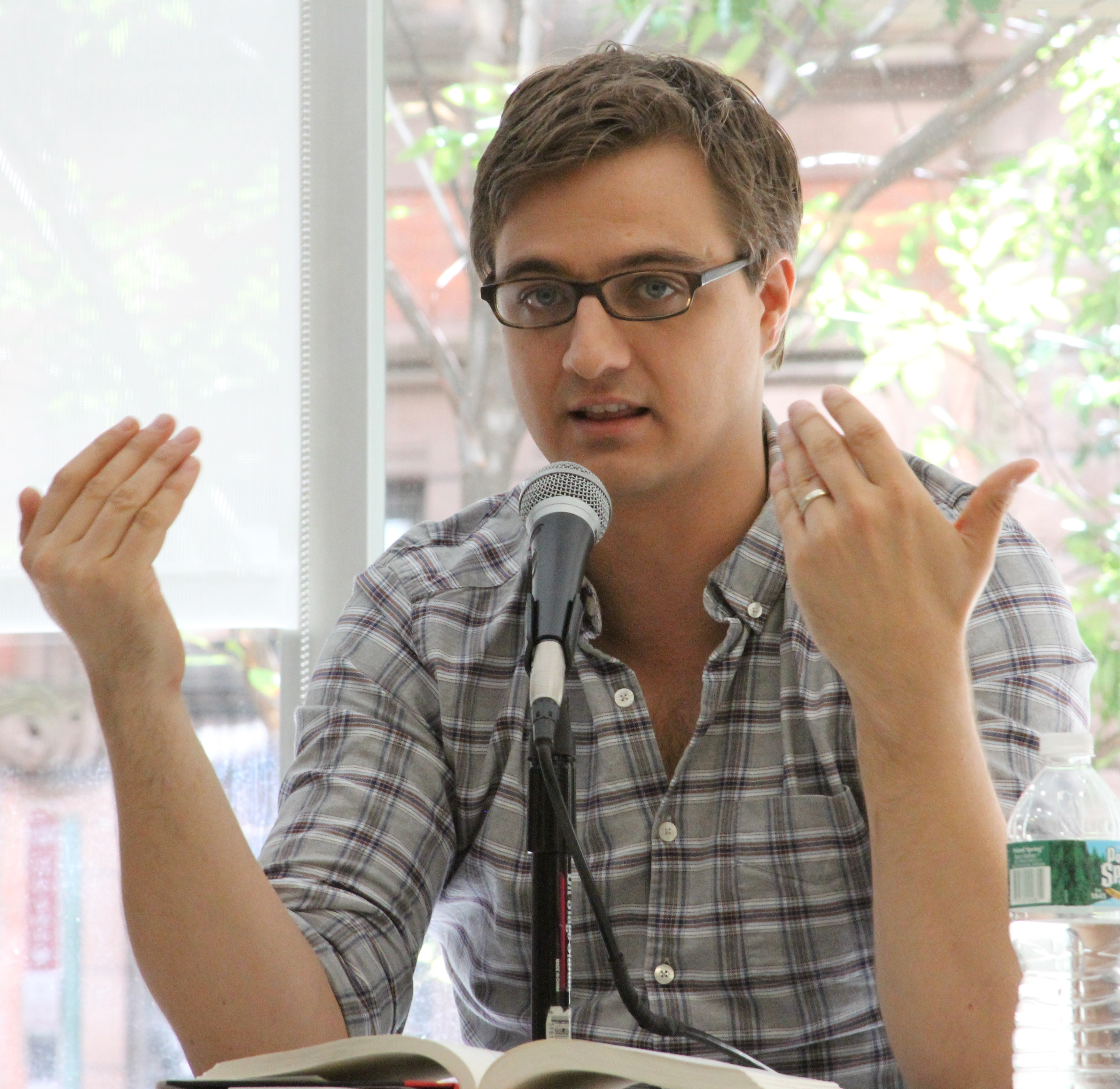 MSNBC host Chris Hayes